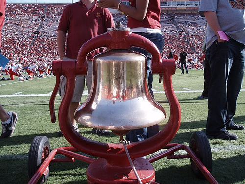 The Victory Bell is the rivalry trophy in the USC-UCLA crosstown rivalry. Seen here in the possession of the USC Trojans, University of Southern California in Los Angeles, California